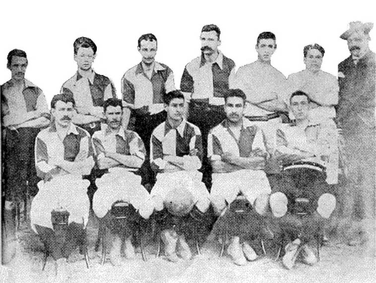 Central Argentine Railway Athletic Club in 1903. One year later the club changed its name to Club Atlético Rosario Central, which has remained since. Up: Kellard, Darch, Welk, Nissen, Thompset, Canton; sitted: Stidock, Westel, Postel, Zenón Díaz, Danny Green.